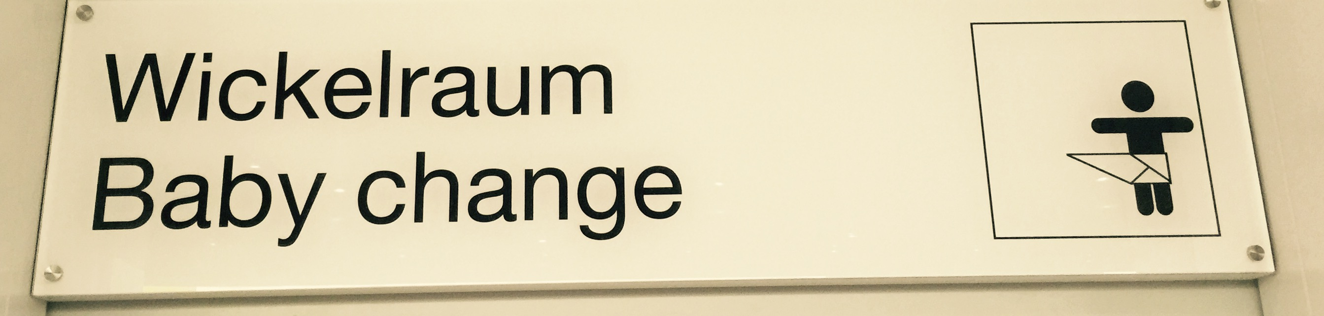 Changing tables in public bathrooms, "Baby change" / "Wickelraum" in German